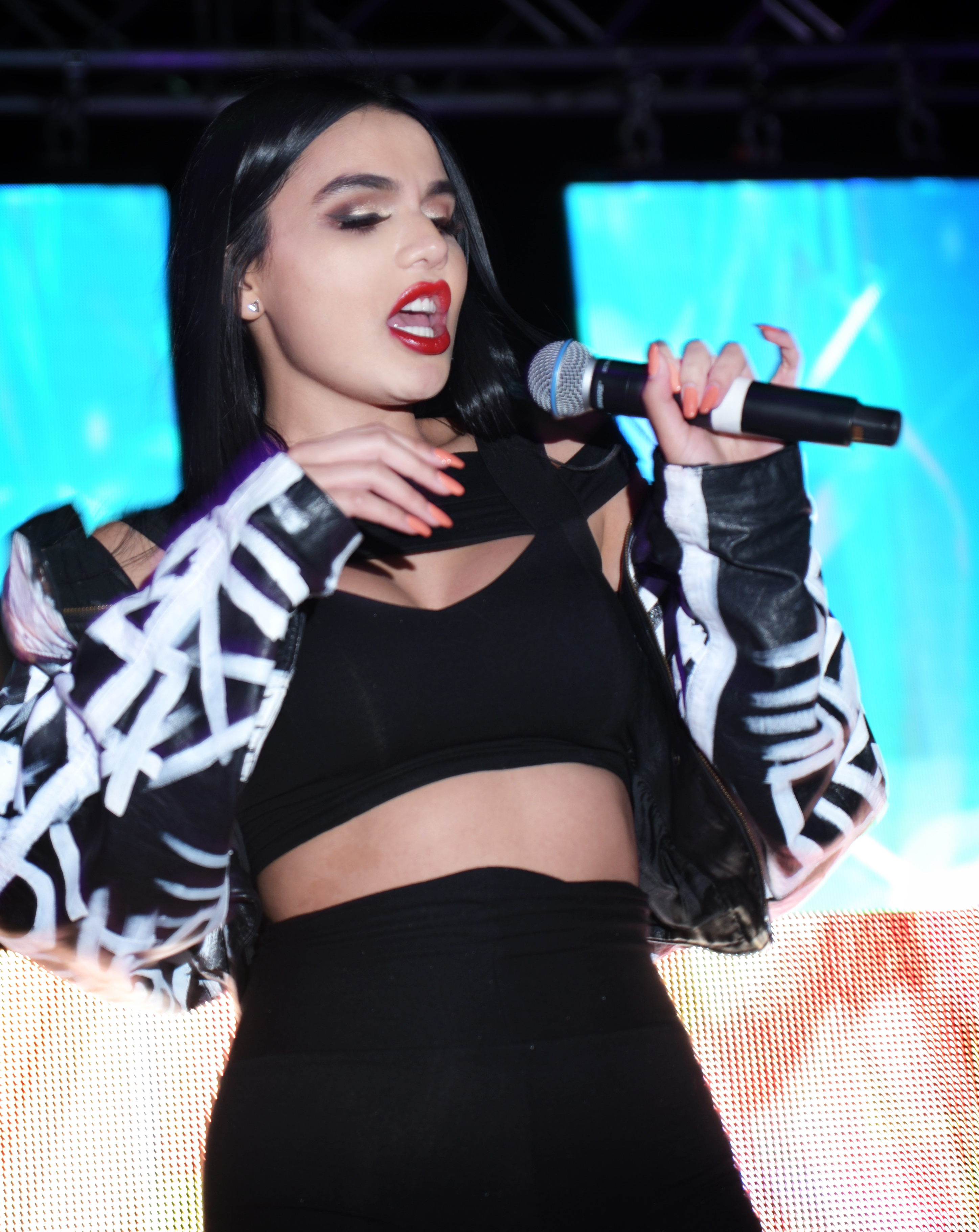 Singer performing in Coachella, California on April 20, 2018 - Photo by Glenn Francis of